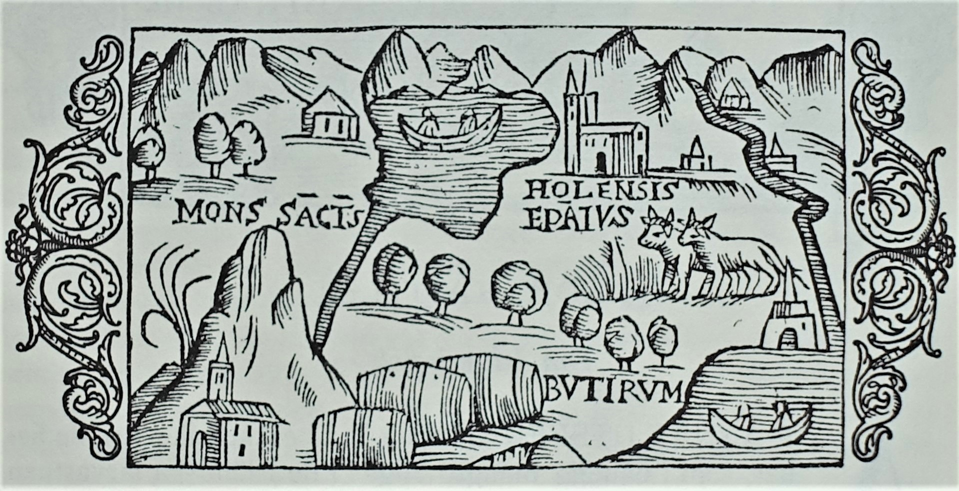 Picture shows: Helgafell monastery in front of the mountain Helgafell (bottom left), three large barrels with butter (butirum), and the Episcopal Church of Hólar, Holensis ep(iscop)atus, (top right). The monastery was a leading producer of butter, according to Olaus.